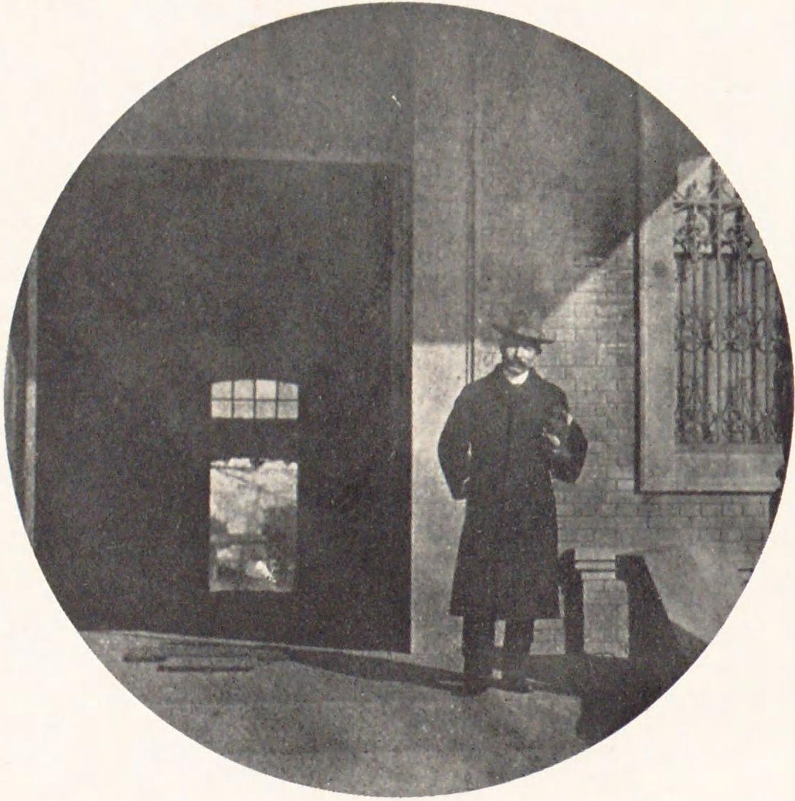 Natsume Soseki front of the entrance of main hall, First Higher School (February 1907).